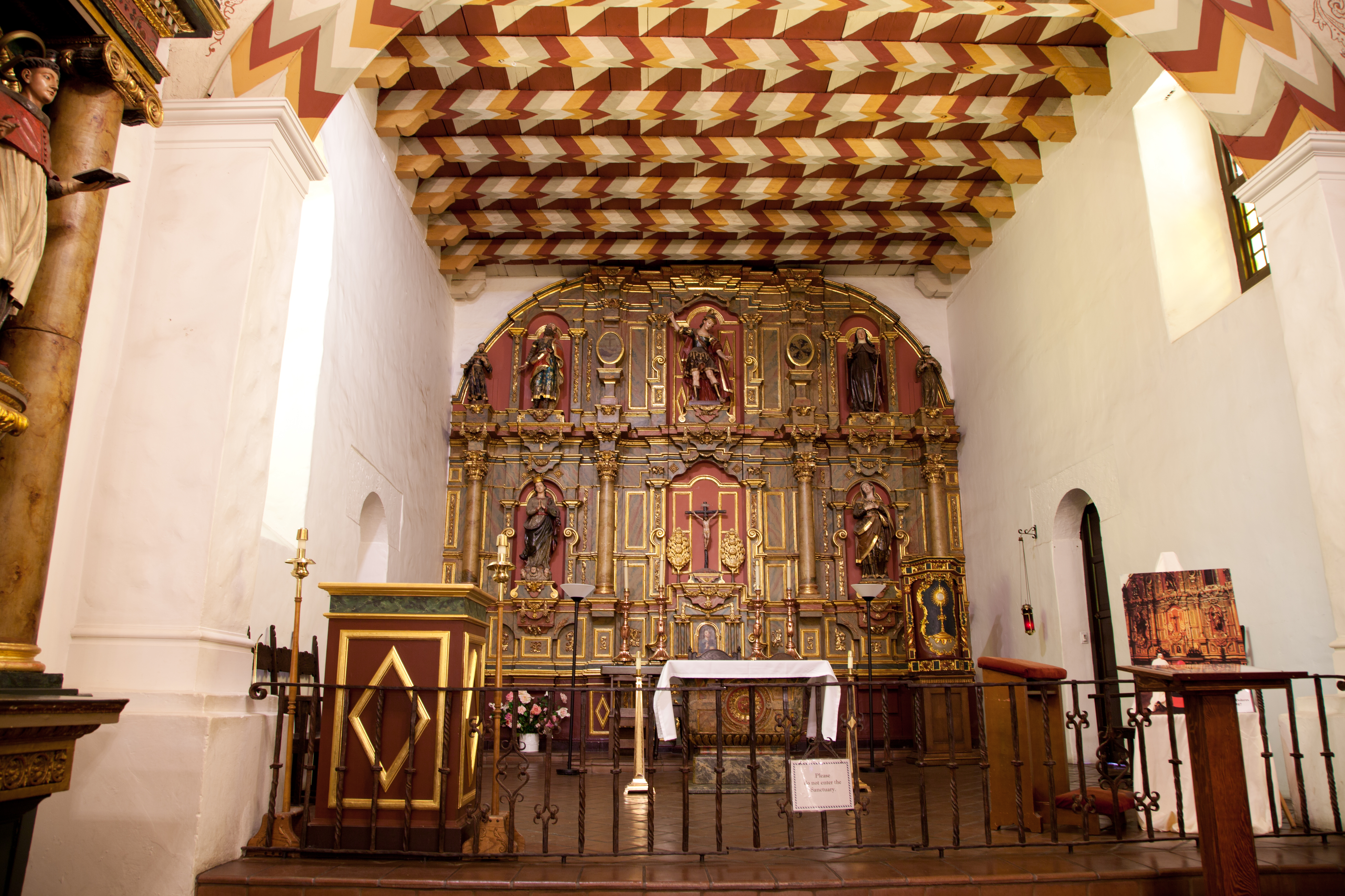 Mission Dolores